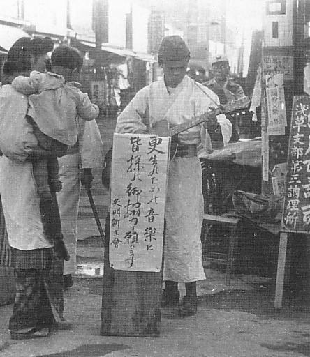 Wounded Soldier in Japan